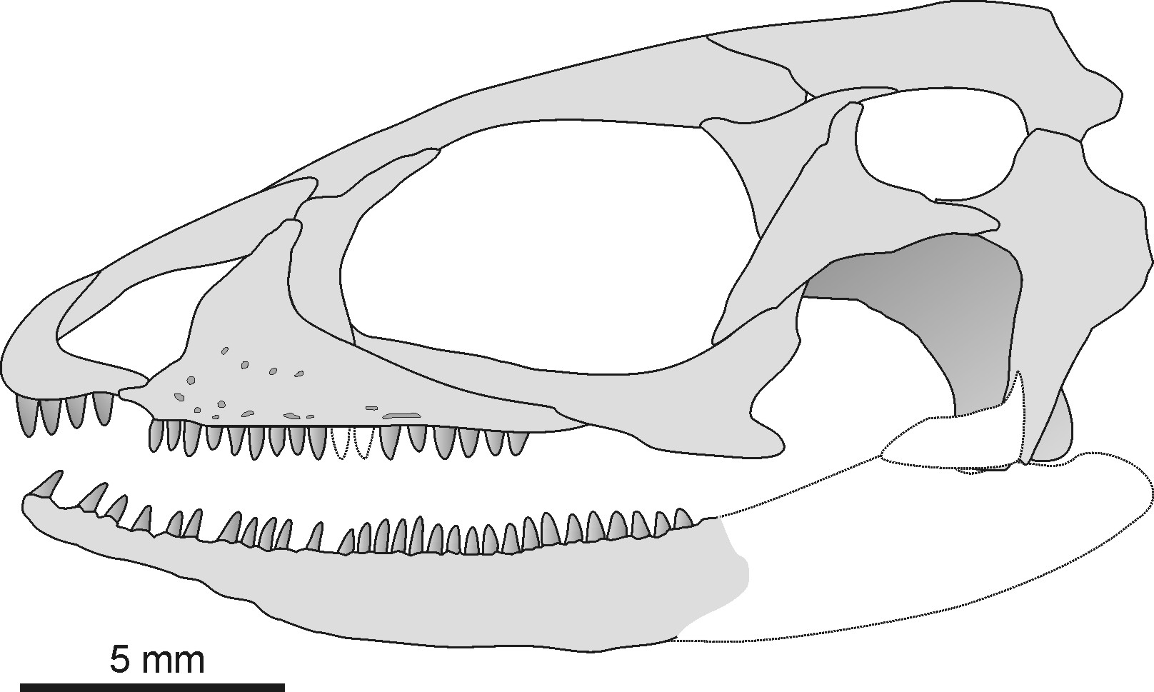 Skull of Pappochelys rosinae